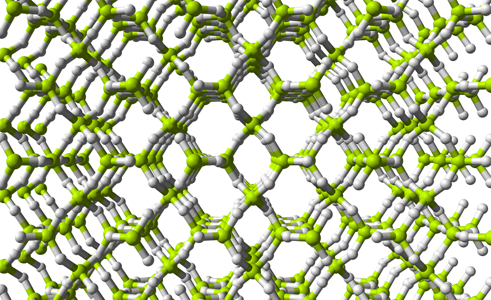 Ball-and-stick model of part of the crystal structure of beryllium hydride, BeH2. X-ray crystallographic data from Gordon S. Smith, Quintin C. Johnson, Deane K. Smith, D. E. Cox, Robert L. Snyder, Rong-Sheng Zhou and Allan Zalkin (1988). "The crystal and molecular structure of beryllium hydride". Solid State Communications 67 (5): 491-494.